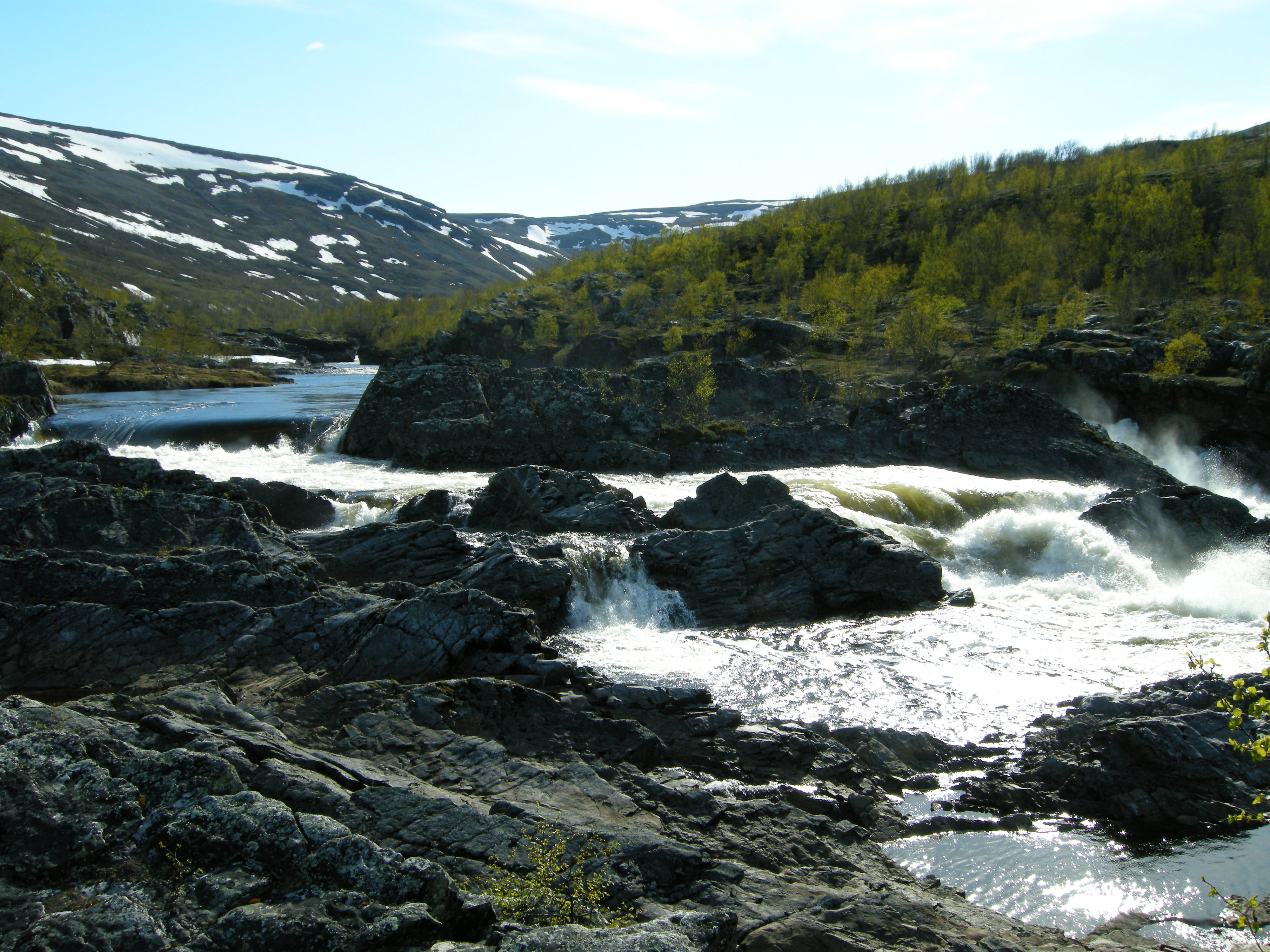 The river Stabburselva in Stabbursdalen national park in Norway